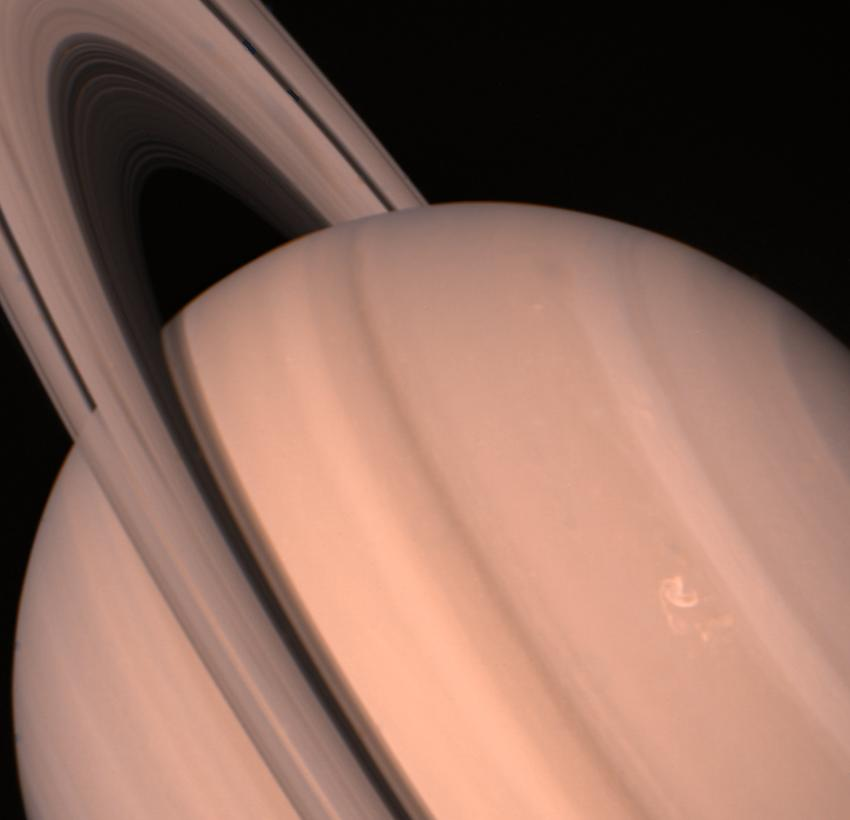 Voyager 2 returned this view of Saturn and its ring system Aug. 11 1981, when the spacecraft was 13.9 million kilometers (8.6 million miles) away and approaching the large, gaseous planet at about l million km. (620,000 mi.) a day. The ring system's shadow is clearly cast in the equatorial region. Storm clouds and small-scale spots in the mid-latitudes are apparent. The so-called "ribbonlike" feature in the white cloud band marks a high-speed jet at about 47 north; there, the westerly wind speeds are about 150 meters-per-second (330 mph). The banding on this large, gaseous planet extends toward both poles.